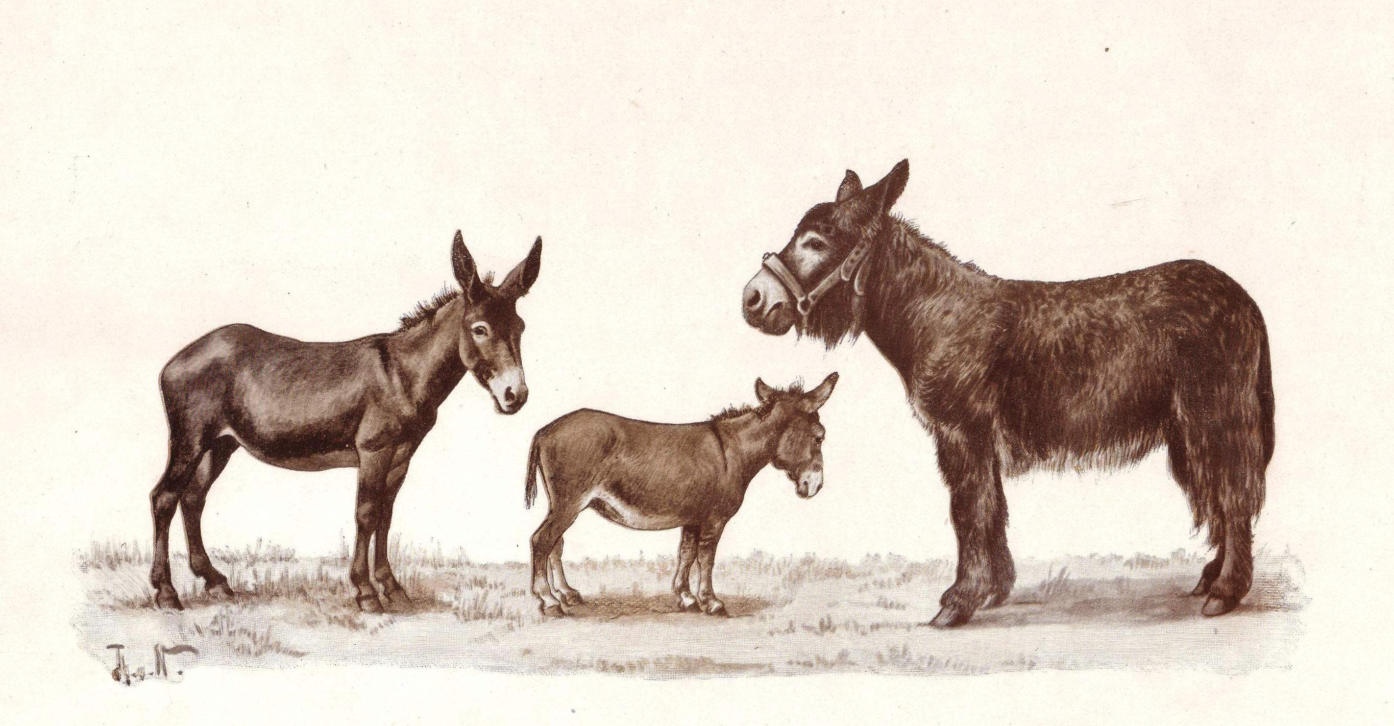 Donkeys. left: female from Szekelyhid (Hungary), middle: female from Northern germany, right: stallion from South-France.